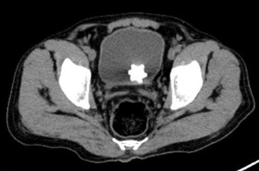 A star-shaped bladder stone called a Jackstone calculus from a 60-year old Middle Eastern man.